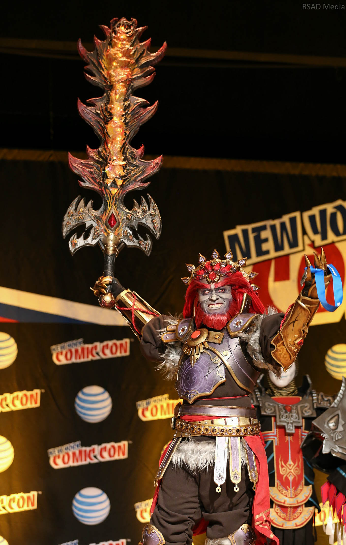 New York Comic Con 2015 - Ganon Cosplay at the 2015 New York Comic Con (NYCC 2015).